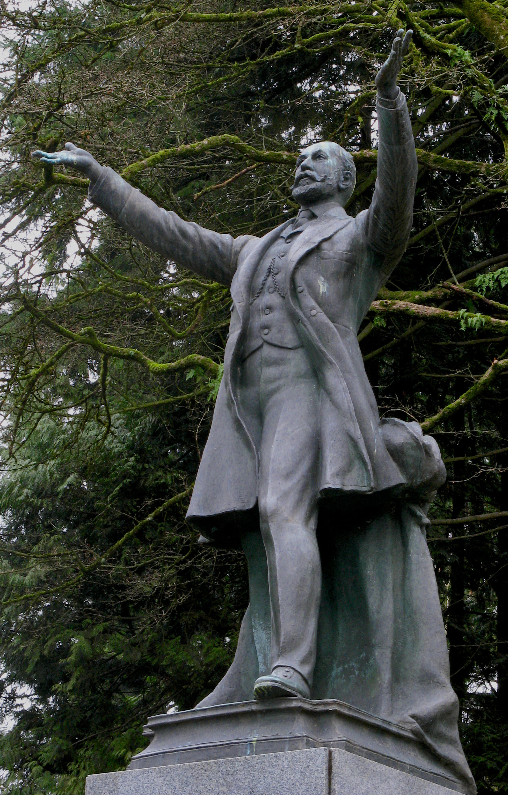 Statue of Frederick Stanley, 16th Earl of Derby, in Stanley Park, Vancouver. The plinth is inscribed with words he used on 29 October, 1889, when dedicating the park, which had been opened in September 1888: To the use and enjoyment of people of all colours and creeds and customs for all time, I name thee Stanley Park. Governor General Georges Vanier unveiled the monument on 19 May 1960.